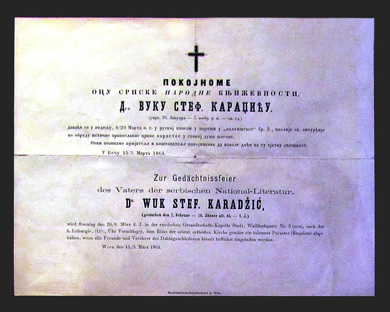 Memorial service to Vuk Karadžić in Vienna